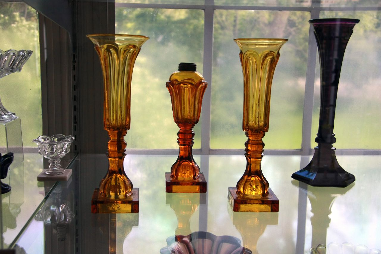 glass blown at Sandwich Glass Museum & Glassworks